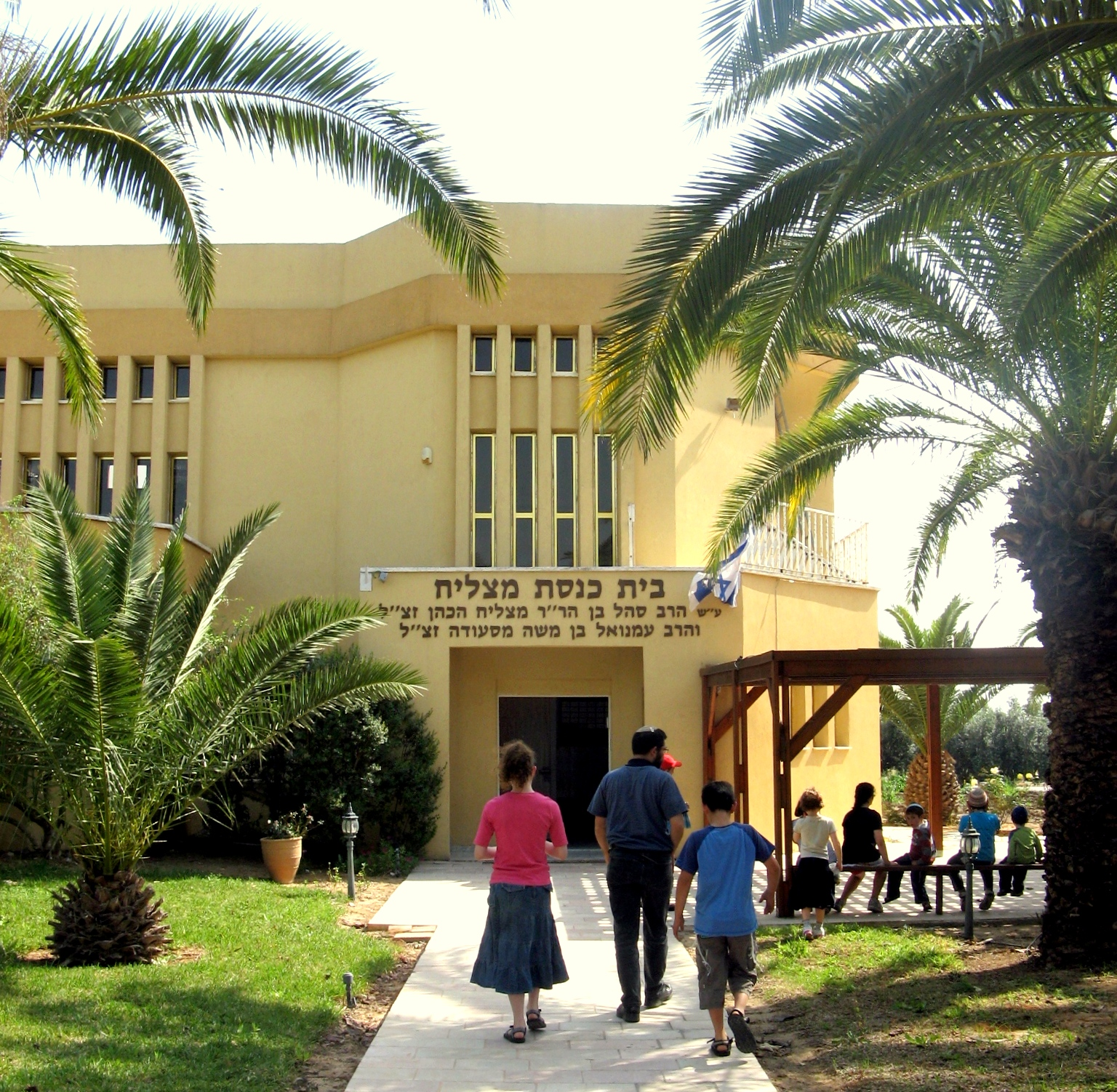 Outside of Karaite Synogauge in Matzliach